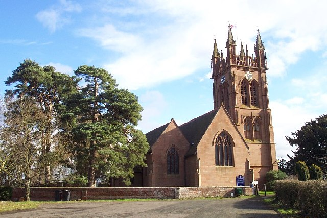 St. Mary the Virgin, Enville.